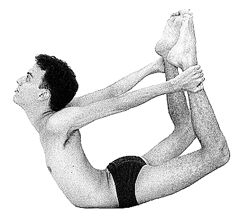 Dhanurásana - Yôga Position